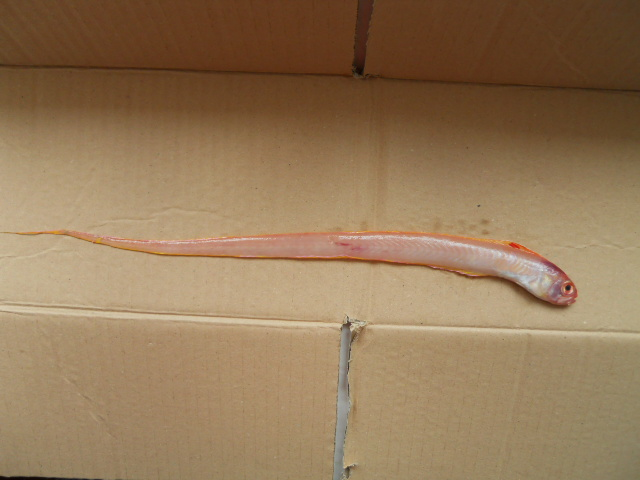 Cepola macrophthalma bought in Grosseto fish market (Tuscany, Italy).